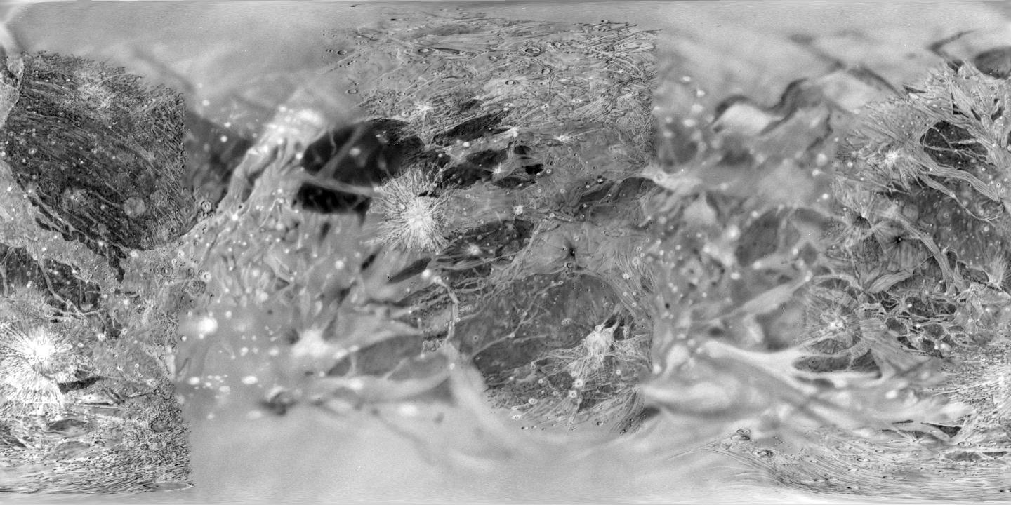 Cleaned up version of the Voyager mosaic. Resolution 4 pixels per degree